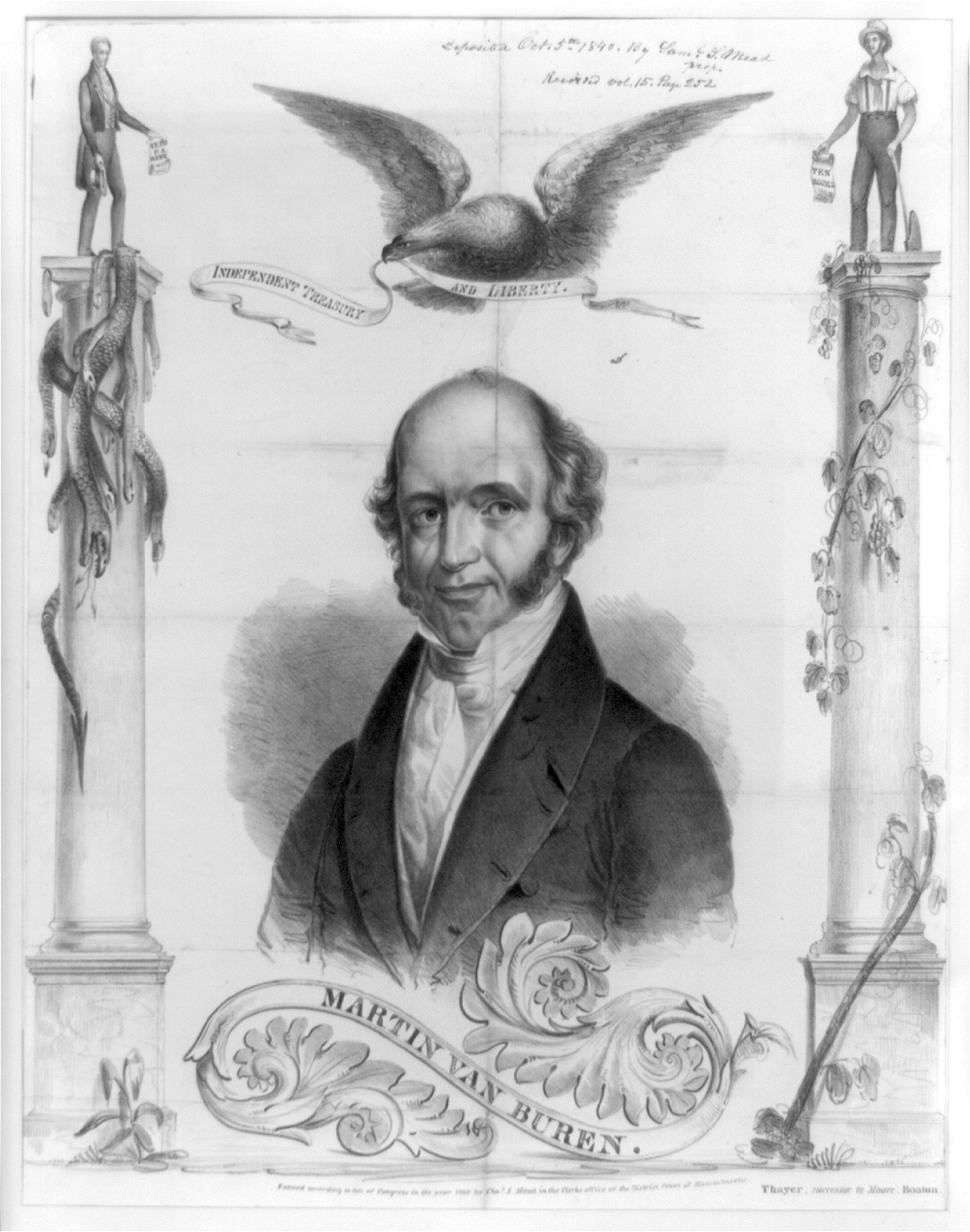 TITLE: Martin Van Buren. SUMMARY: "One of the few campaign prints issued in support of Democratic incumbent Martin Van Buren's 1840 presidential bid. Designed to appeal to the workingman, the print invokes the recent history of Democratic support of labor interests. The artist specifically cites Andrew Jackson's defeat of the United States Bank and Van Buren's recent executive order reducing the work day of all federal employees to ten hours. In the center is a large bust portrait of Van Buren. Above it flies an eagle holding a streamer with the words "Independent Treasury and Liberty." Van Buren's Independent Treasury Bill, passed in July 1840, established an independent treasury in Washington and subtreasuries in cities throughout the country, which took the place of the late Bank of the United States. Flanking the portrait are two colummns. Atop the one on the left stands Andrew Jackson holding his famous 1832 veto of the Bank's charter. Jackson treads on one of several large dead serpents which symbolize the Bank and here hang down the sides of the column. (The Bank had been represented previously, in "General Jackson Slaying the Many Headed Monster," no. 1836-7, as a snakelike monster.) The column on the right is entwined with a large grapevine. On its capital stands a farmer, holding a large axe and a document "Ten Hours.""--Library of Congress catalog. MEDIUM: 1 print on wove paper : lithograph ; image 49 x 39.4 cm. CREATED/PUBLISHED: [Boston : Thayer], 1840. CREATOR: Thayer, Benjamin W., 1814-1875, lithographer.